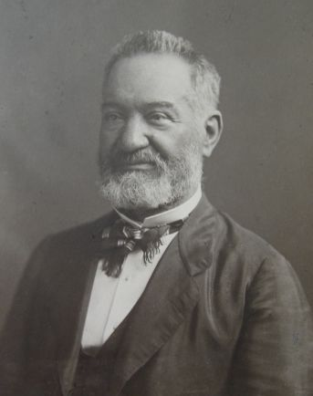 Picture of Louis Veuillot, by Nadar.